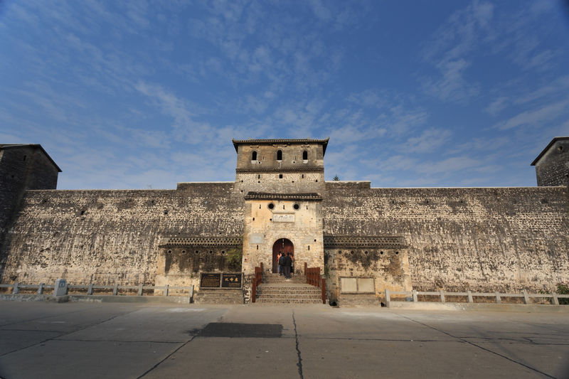 ShuangFengZhai